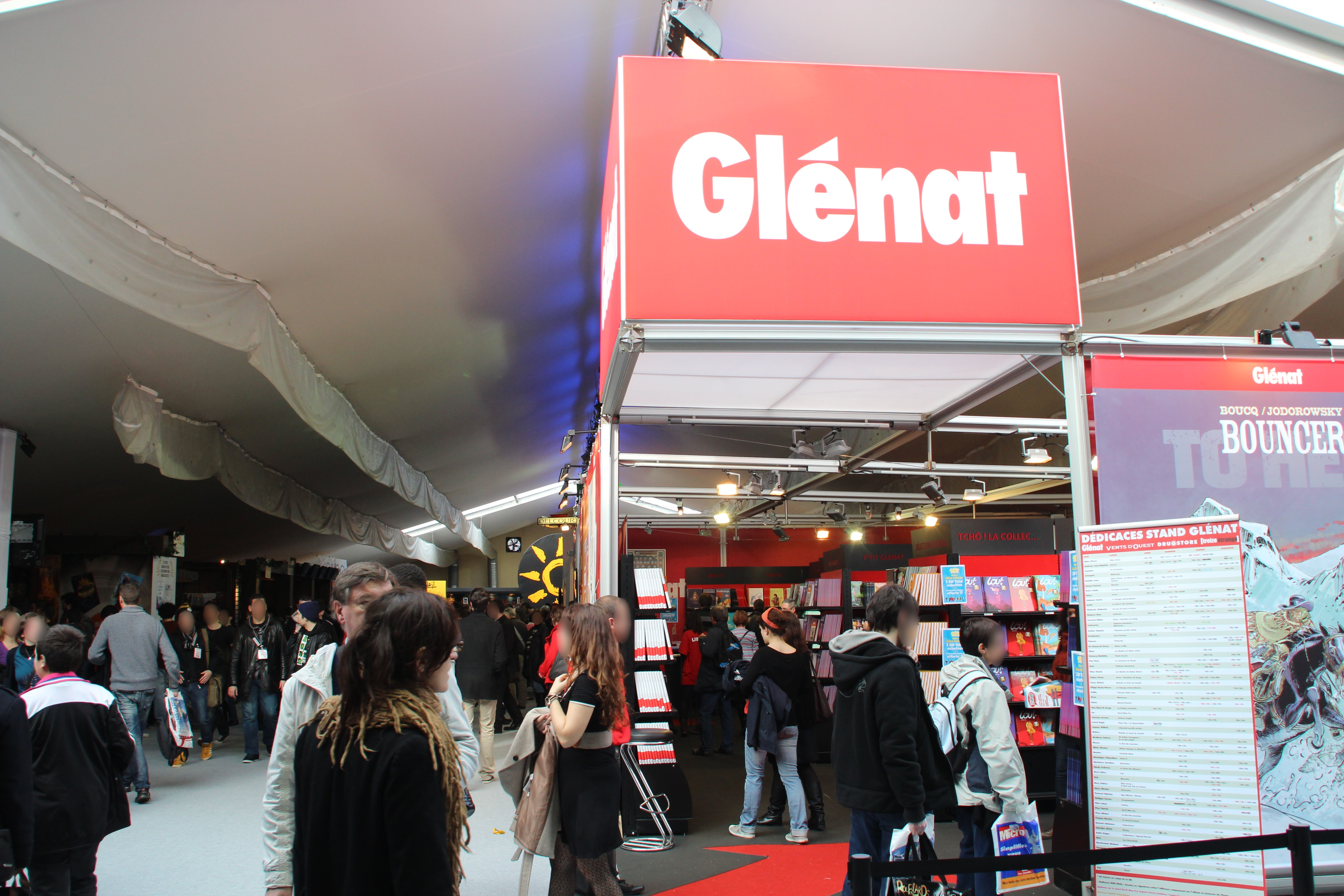 Angoulême International Comics Festival 2013.